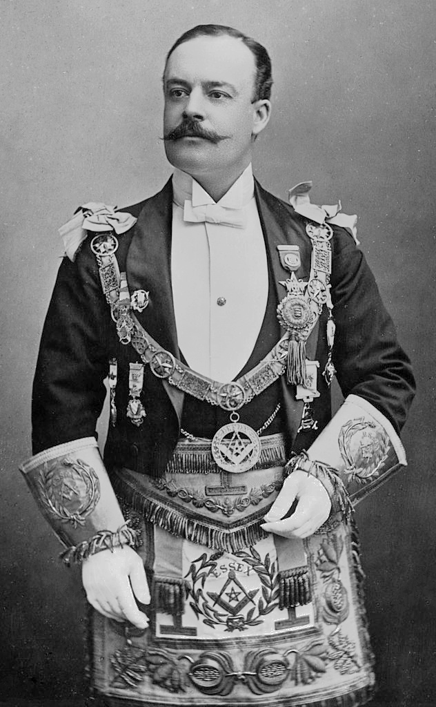 27th November 1889: Francis Richard Charles Guy Greville Warwick, 5th Earl of Warwick (1853 - 1924) wearing a ceremonial necklace and clothing.